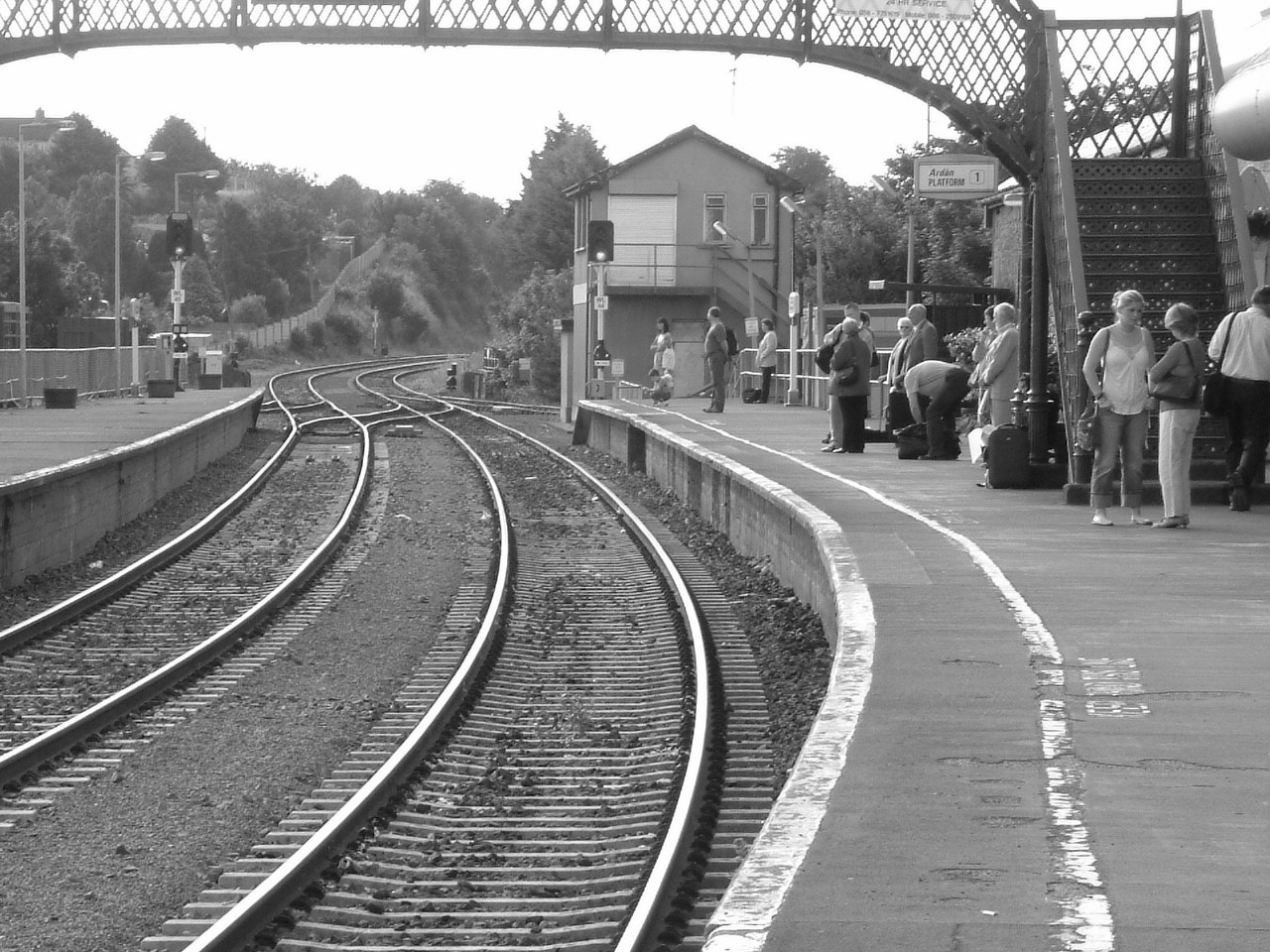 Waiting for the 0805 train from Waterford to Dublin on the McDonagh Junction platform in Kilkenny.